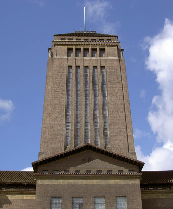 The tower of the Cambridge University Library, en:1931-34 by Giles Gilbert Scott. Taken on April 27, en:2005.